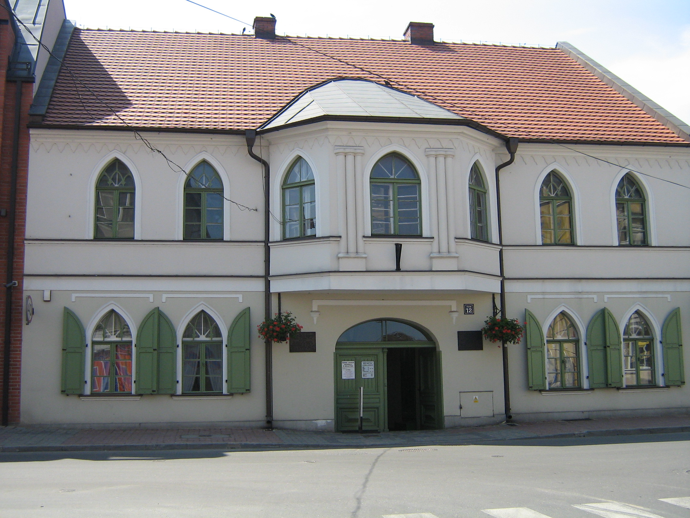 Museum of Robert Koch in Wolsztyn (Poland)